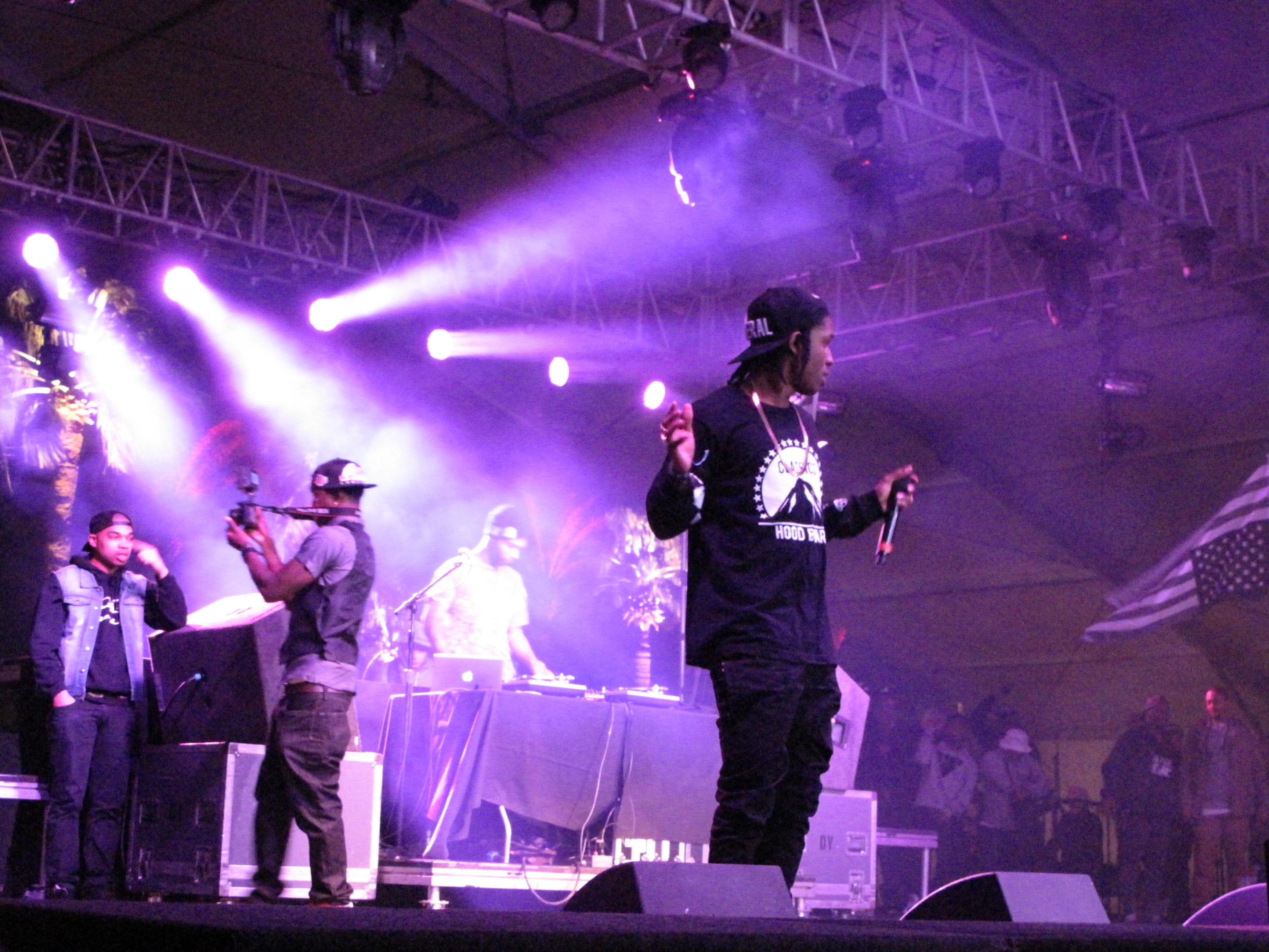 ASAP Rocky performing on Drake's Club Paradise Tour, at Coachella, 2012